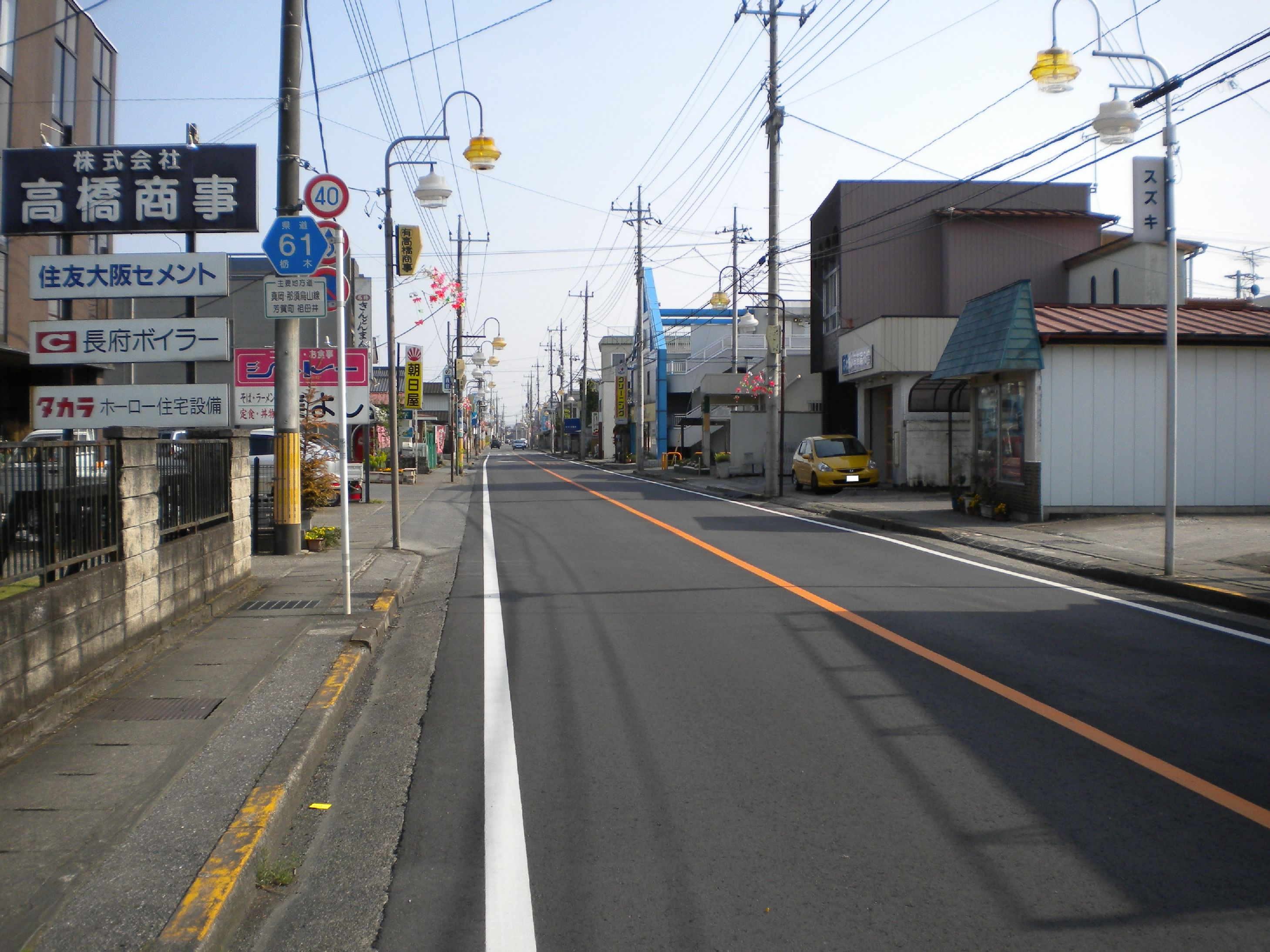 The Tochigi Prefectural Road Routes 61 and 69 in Ubagai, Haga Town